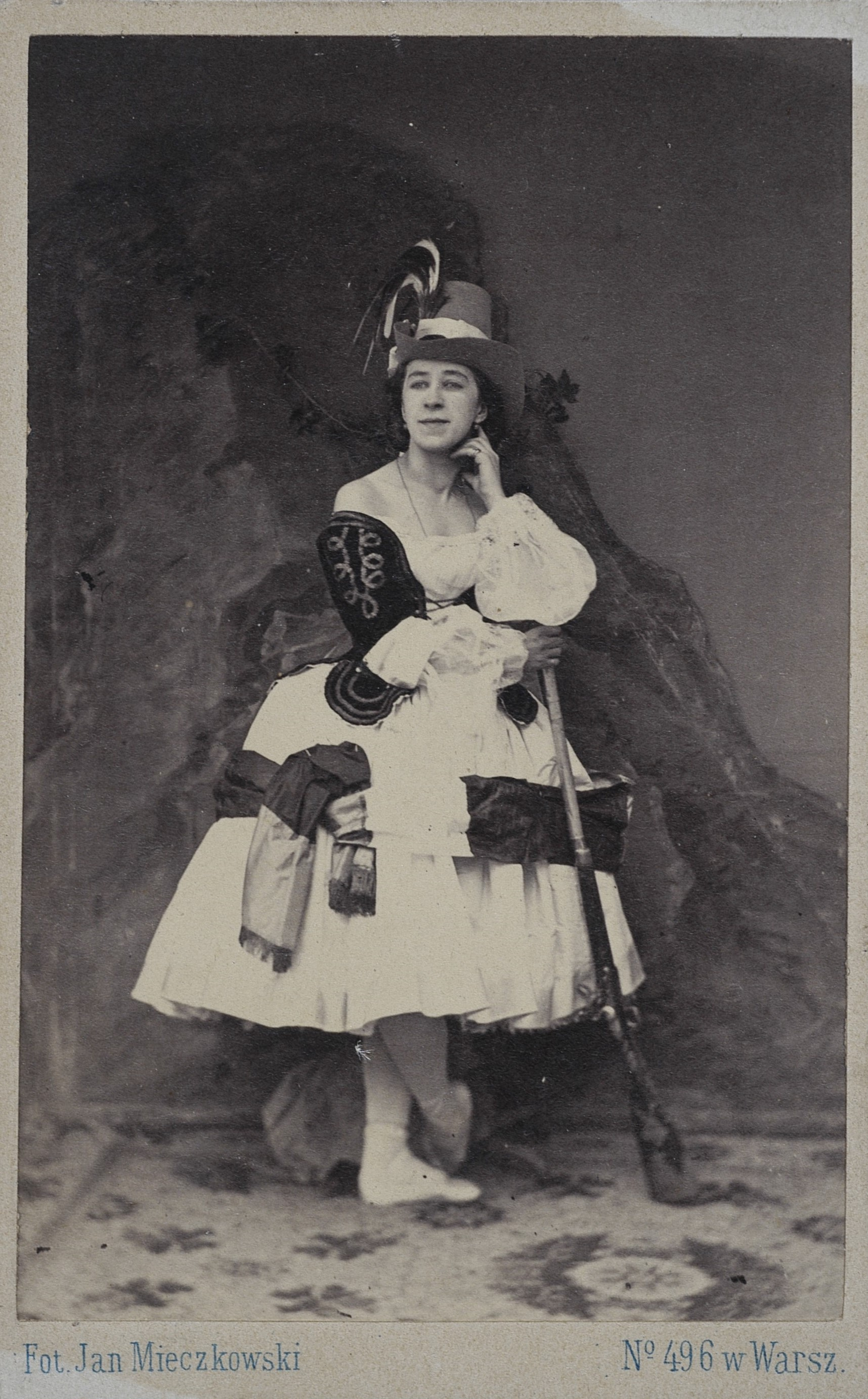 Maria Freytag as Catarina from ballet "Catarina, ou La Fille du bandit", 1856.